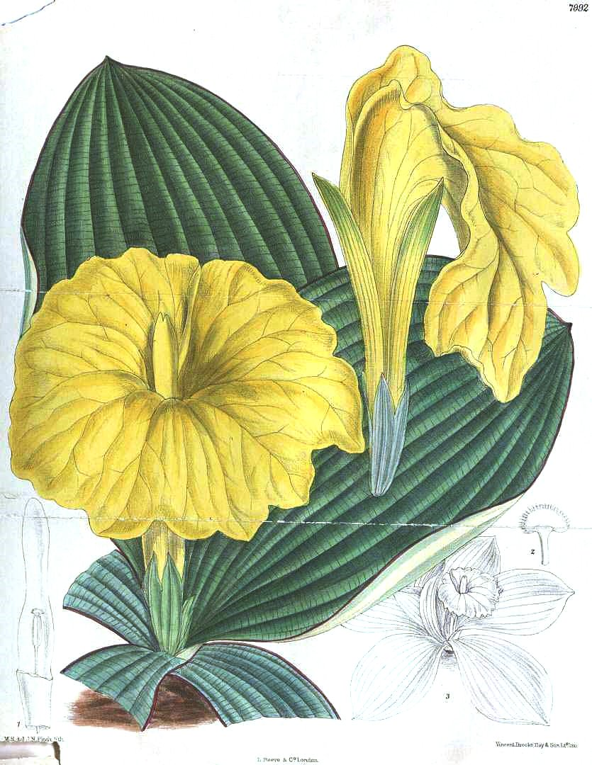 Costus spectabilis (Fenzl) Schumann [as Cadalvena spectabilis Fenzl] Curtis’s Botanical Magazine, vol. 131 [ser. 4, vol. 1]: t. 7992 (1905) [M. Smith]